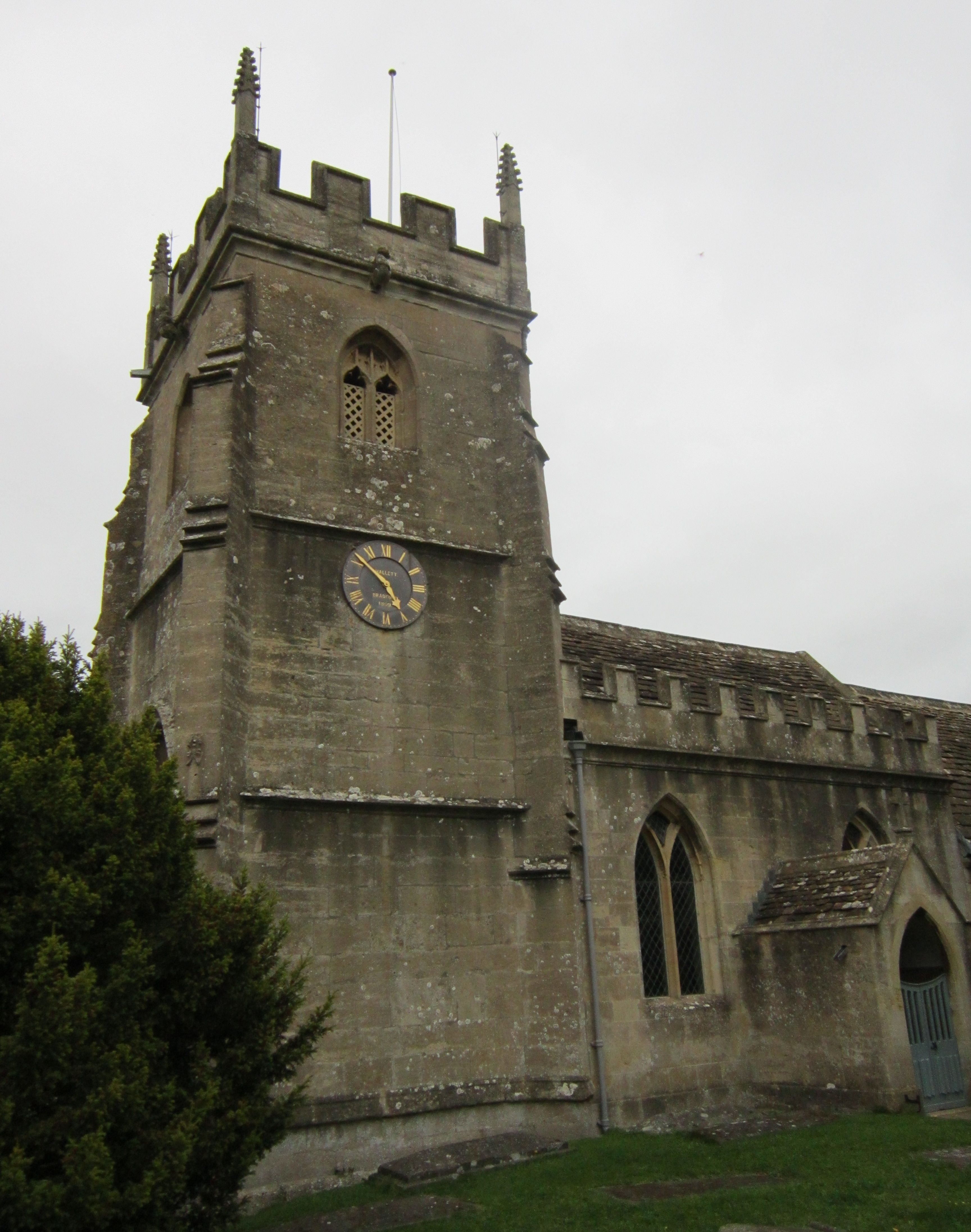 St Peters church, Freshford